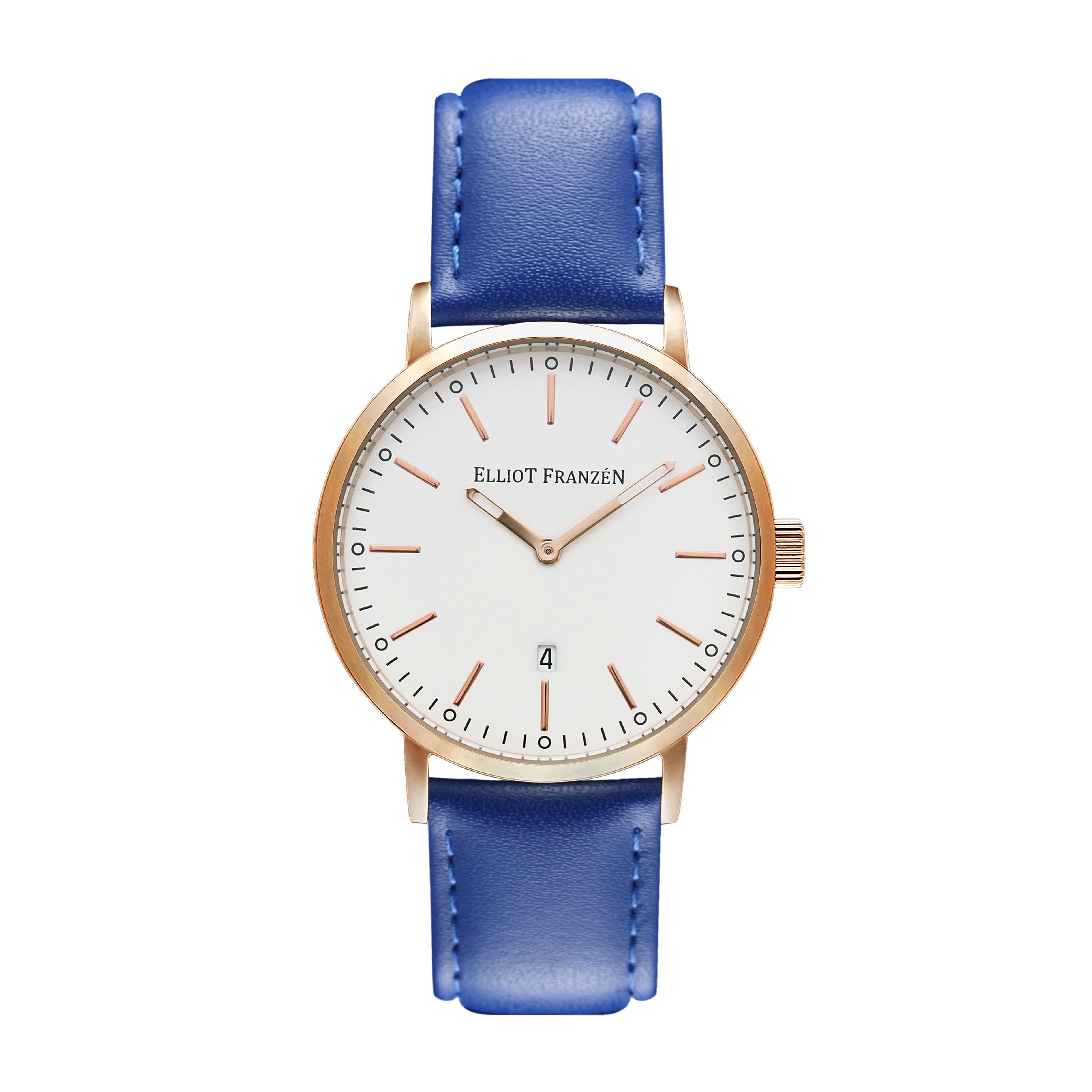 A minimalist design, eggshell white dial and rose gold case.